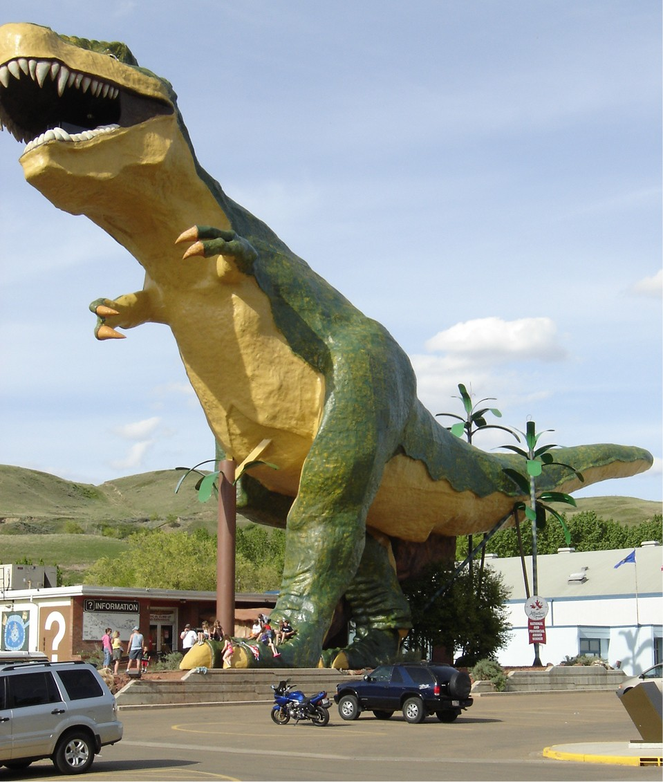 Structure shaped like monster